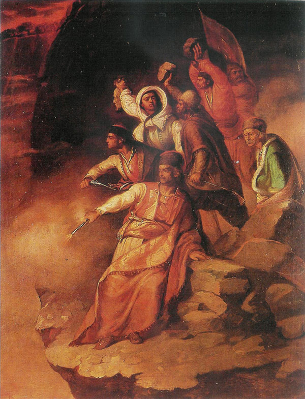 Uprising of the Montenegrins. Oil painting by Đura Jakšić